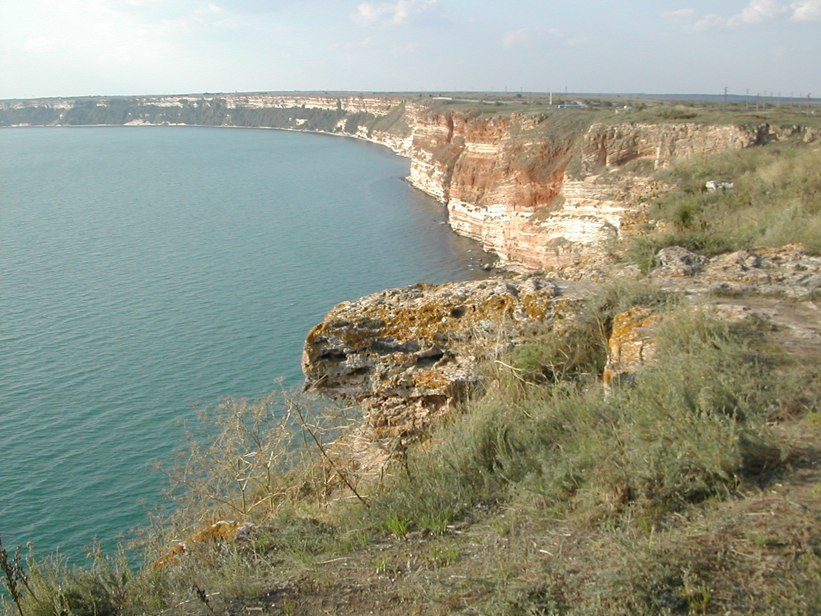 Cliffs at Kaliakra, Bulgaria, looking towards the south, 2003. The cliffs are about 60 metres high and are made of sedimentary rock of Miocene (middle Sarmatian) age, about 12 million years old.